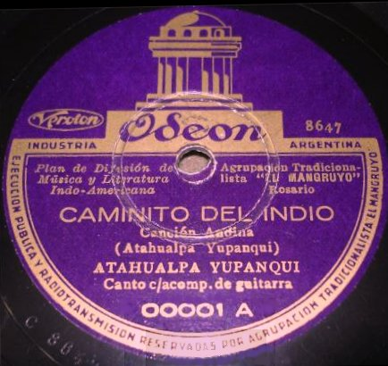 1st record of Argentine folk singer Atahualpa Yupanqui. A side: "Caminito del indio", (c 8.647), cancion Andina, recorded 20-7-36. Argentina (c) canto y guitarra